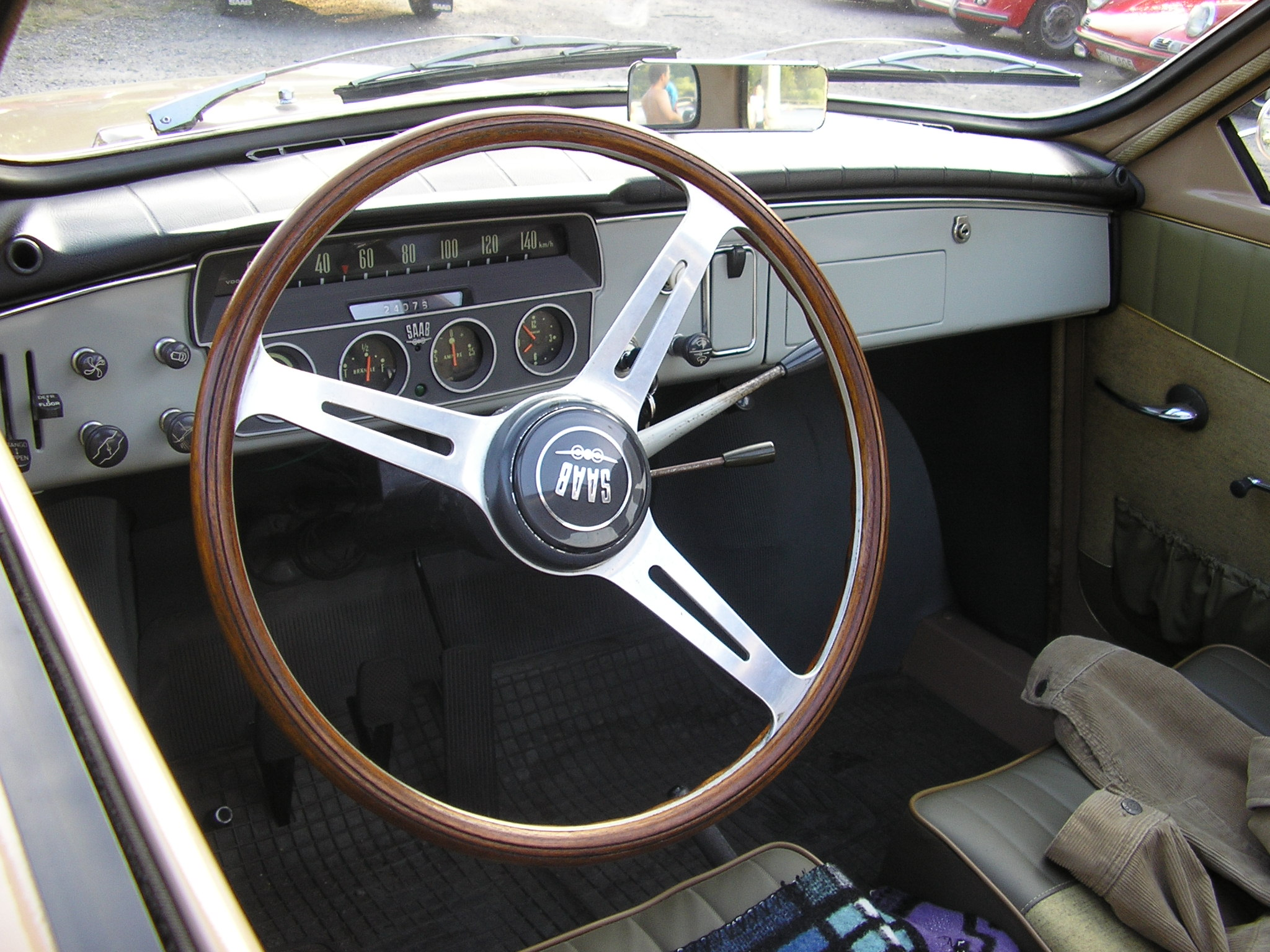 Interior in a short nose SAAB 96. Photographed by myself at Brostugan outside Stockholm. Notice the speedometer at the top.